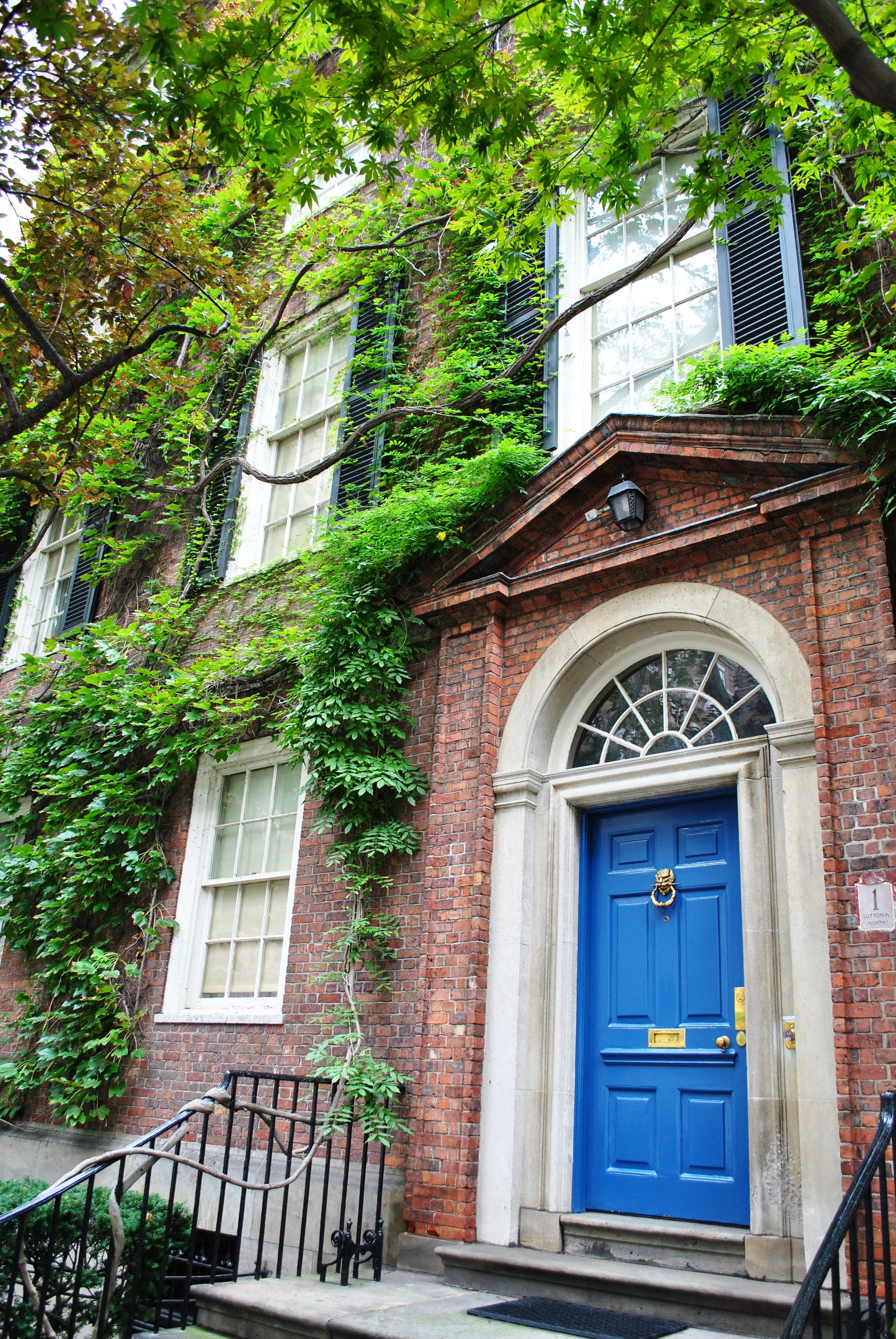 Image originally published in Queer Places: Retracing the Steps of LGBTQ people around the World Authored by Elisa Rolle